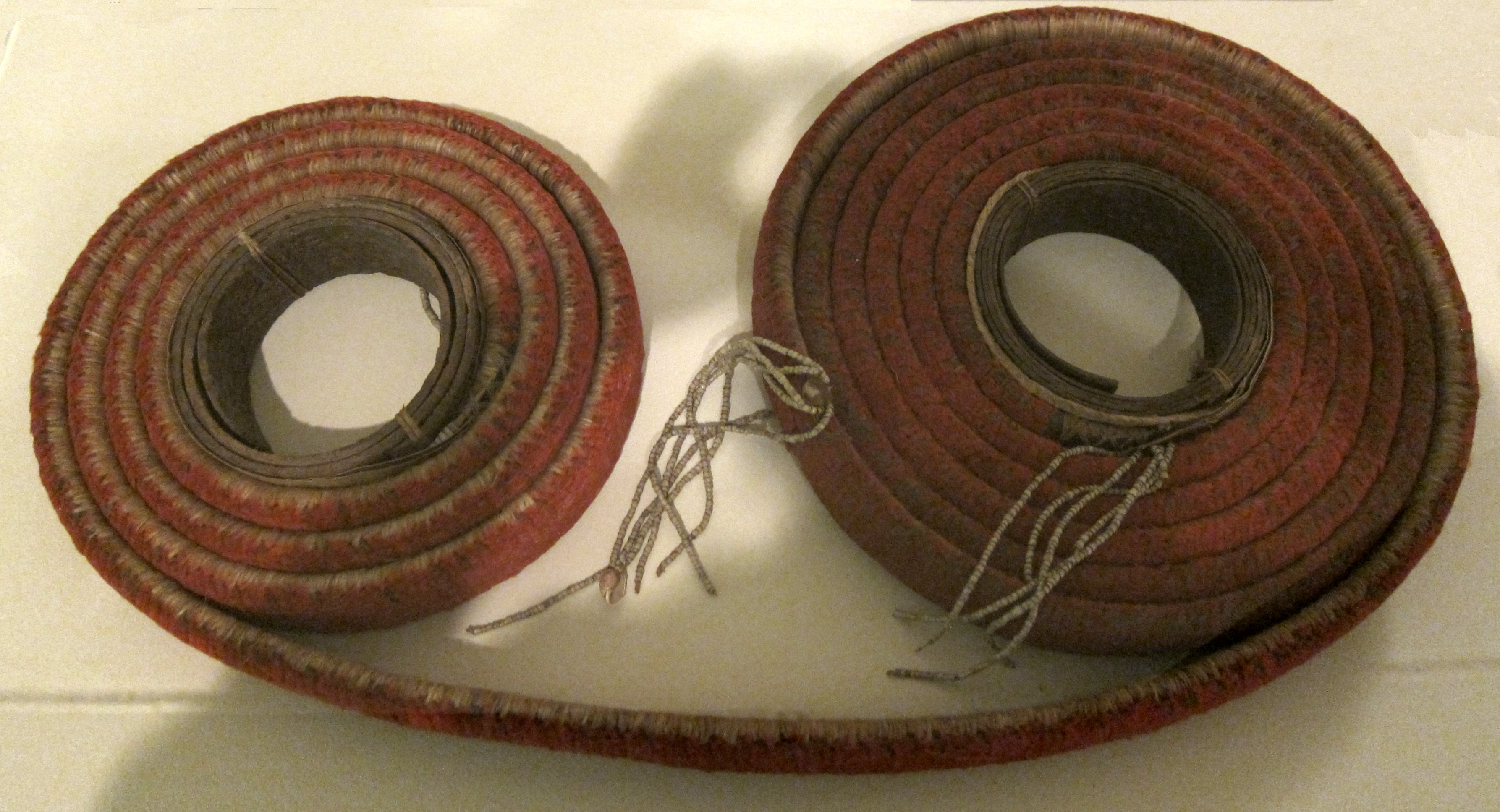 Red feather currency belt, Santa Cruz Islands, bark base, red honeyeater feathers, Pacific pigeon gray feathers, fiber band, pearl shell and cowrie shells, Honolulu Academy of Arts